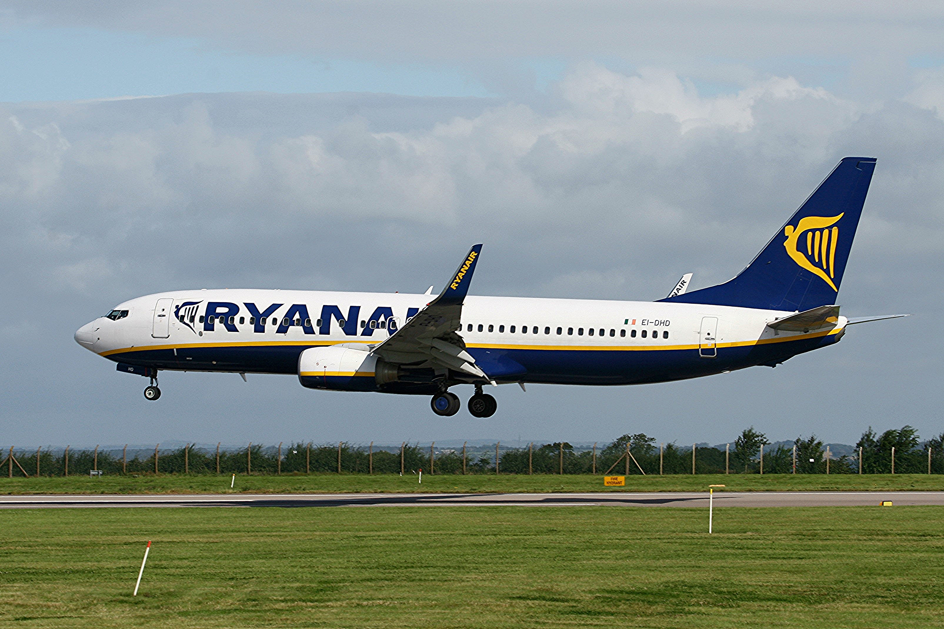 EI-DHD Boeing 737-8AS Ryanair East Midlands 29-08-2009